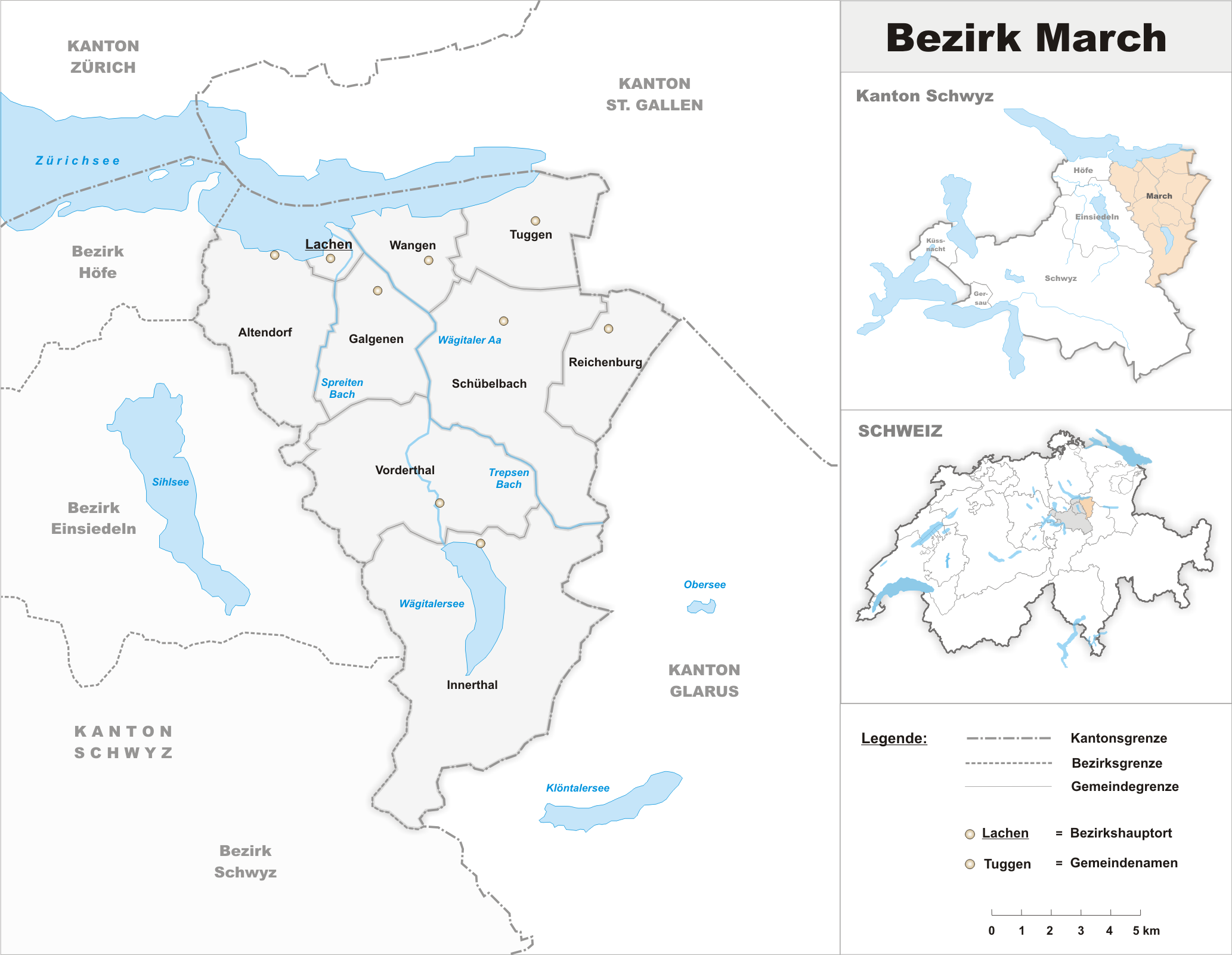 Municipalities in the district of March